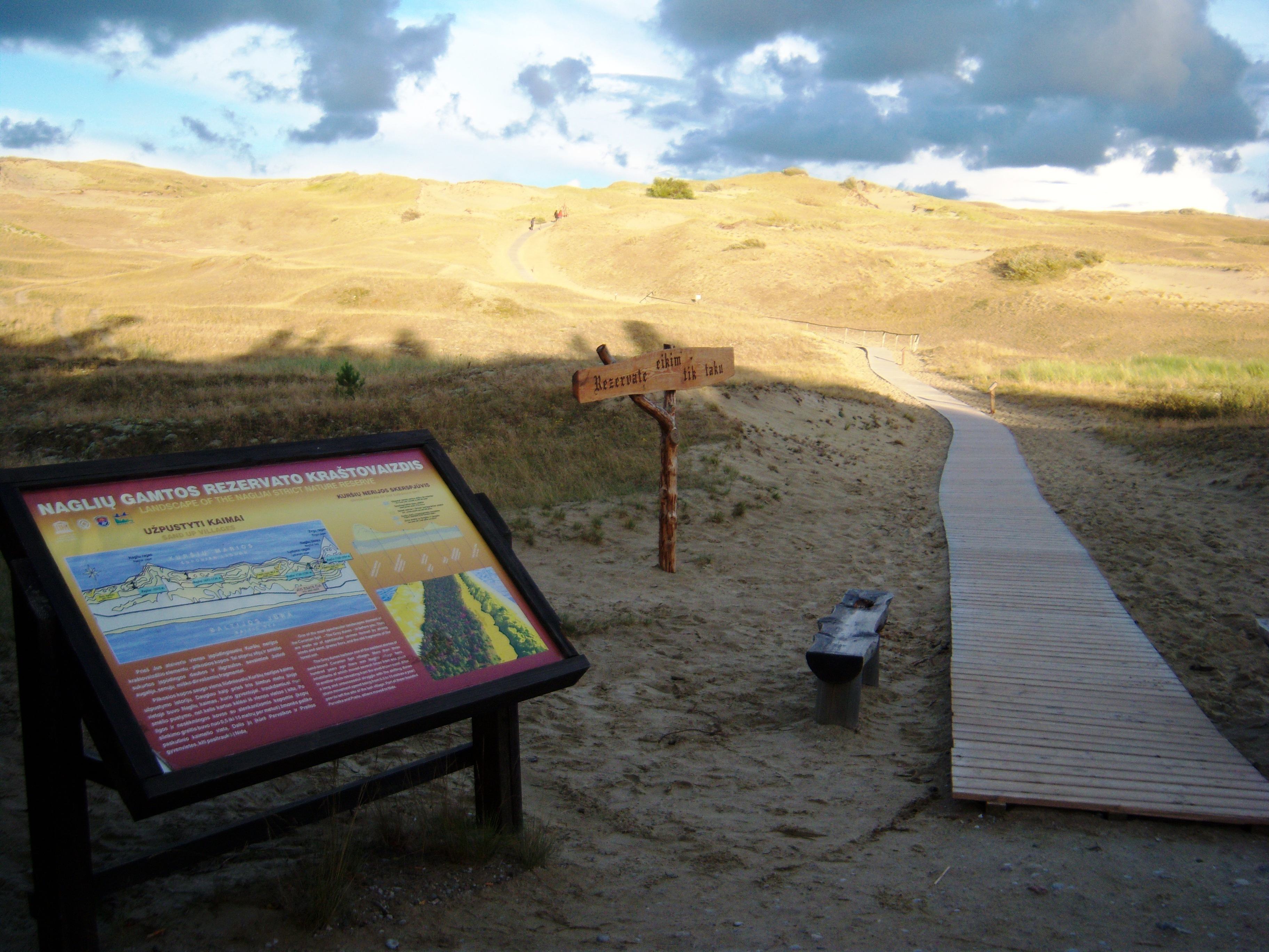 View to Nagliai, Curonian Spit, Lithuania